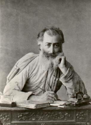 Writer Alexander Kazbegi (1848-1893)